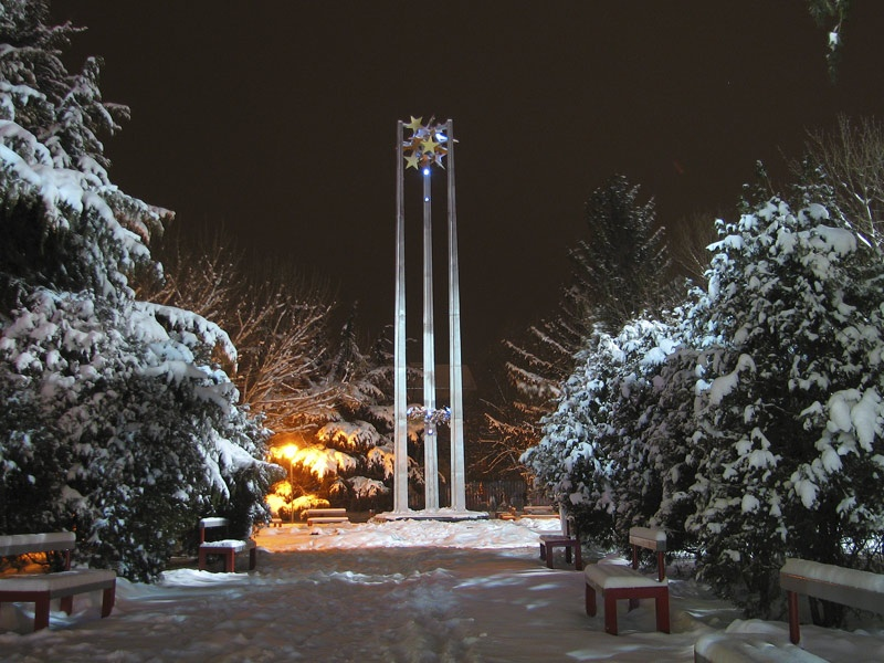 Kazanlak winter: United Europe memorial.